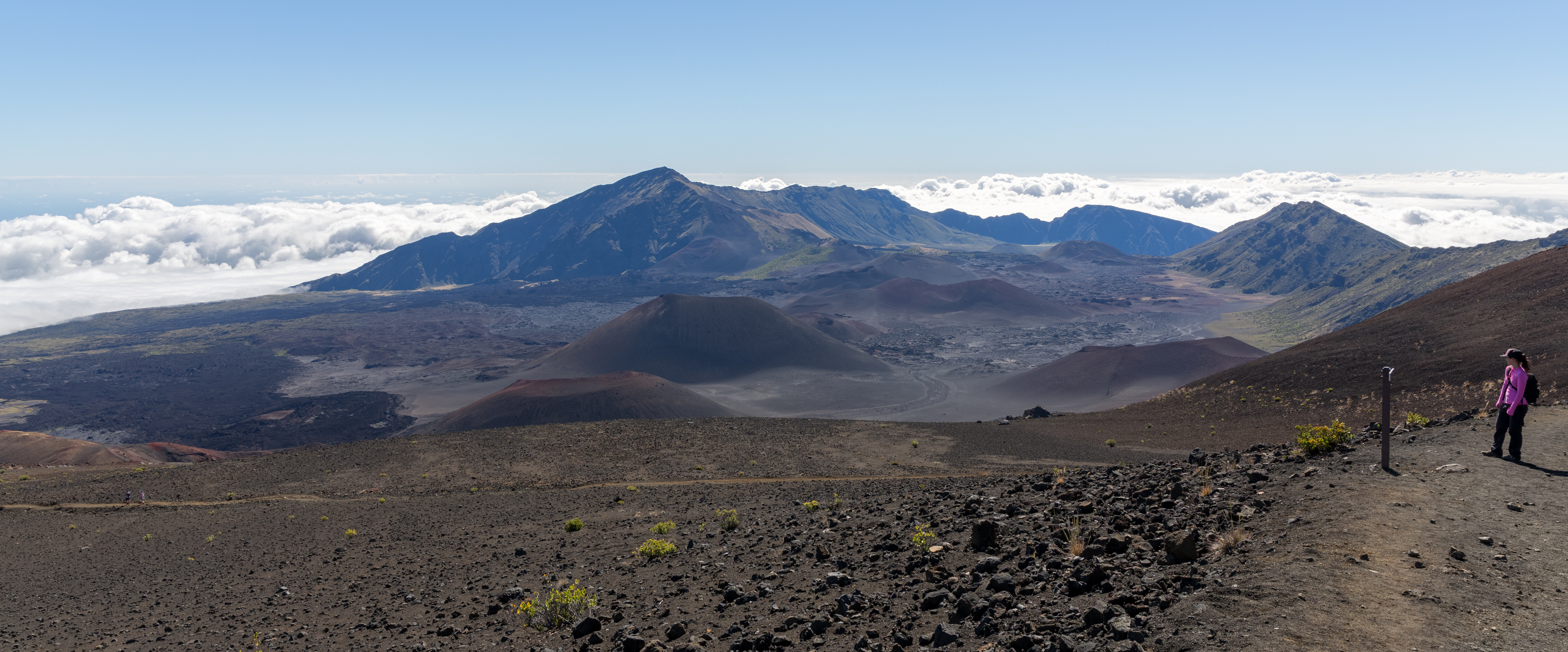 Haleakalā crater in Haleakalā National Park